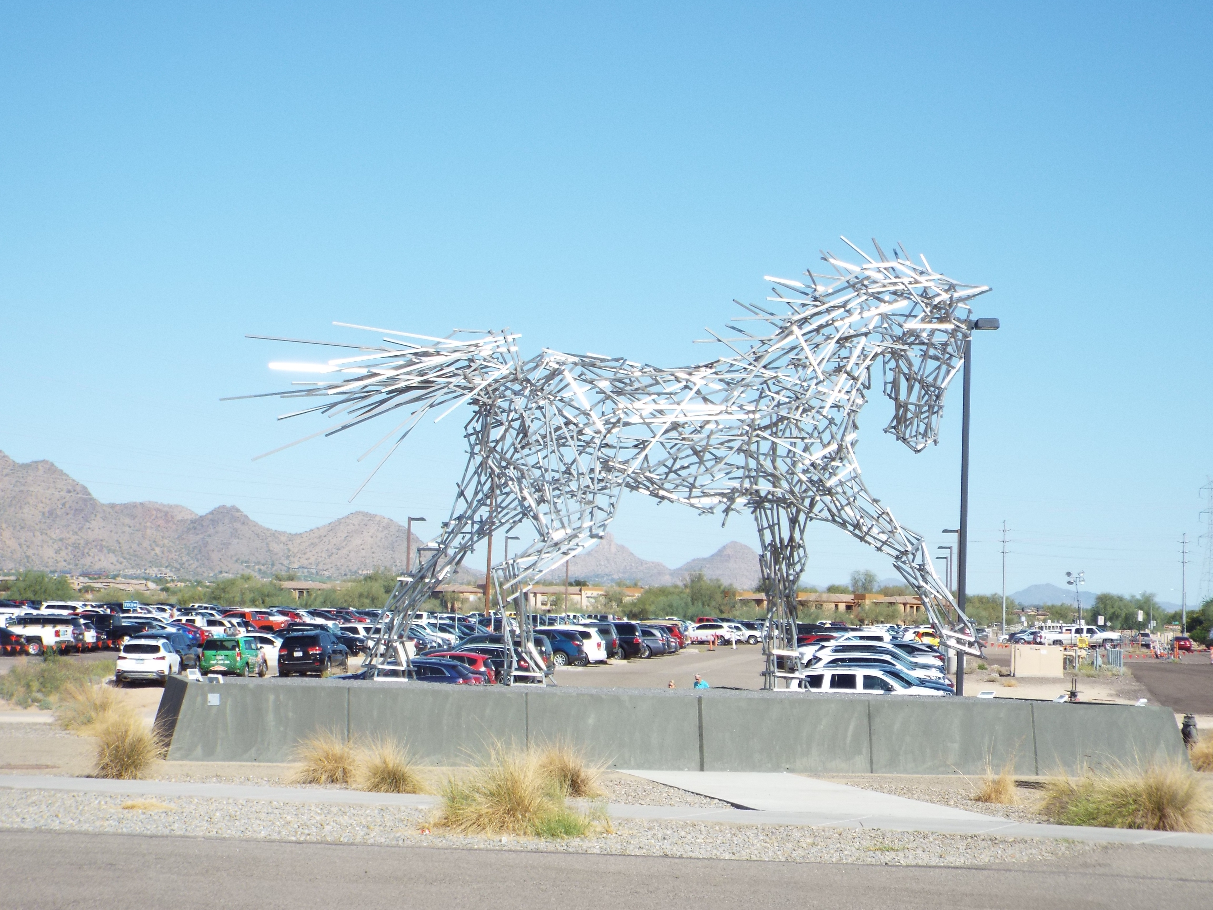 "Impulsion" is a massive metal horse by artist Jeff Zischke which was unveiled in December 12, 2014, in the new North Hall at WestWorld in Scottsdale, Arizona.